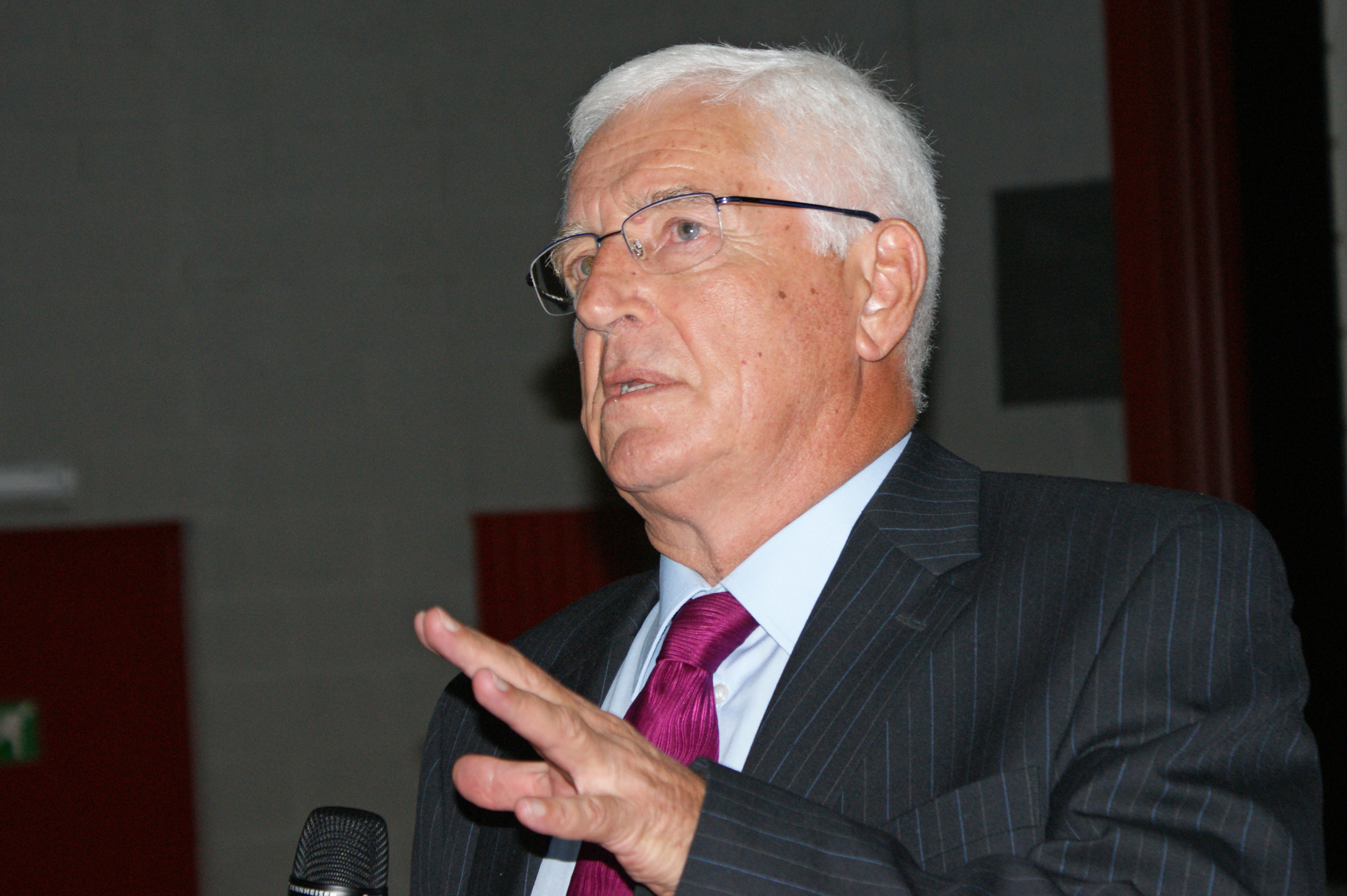 Albanian archaeologist Neritan Ceka at a conference in Geneva, Switzerland